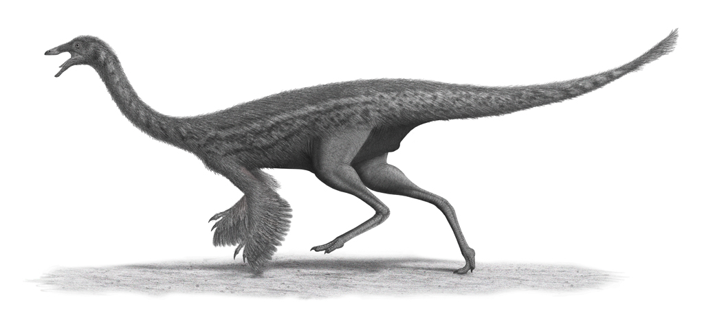 Gallimimus bullatus restoration. • Based Proportionally on Scott Hartman's skeletal drawing. [1] • Three specimens of Ornithomimus preserve evidence of feathers, including evidence of pennaceous feathers on the arms. [1] An additional Ornithomimus specimen suggests that the skin lacked feathers on the lower parts of the thigh and under the tail. [2] This image goes under the assumption that Gallimimus were also covered in feathers. • The colours and/or patterns, as with nearly all reconstructions of prehistoric creatures, are speculative. Note: I often update my images; If you want to post this image on other websites, if possible, please link to the original file here. This will allow others to see the most recent version. Thanks. References ↑ (2012). "Feathered Non-Avian Dinosaurs from North America Provide Insight into Wing Origins". Science 338 (6106): 510. ↑ (2016). "A densely feathered ornithomimid (Dinosauria: Theropoda) from the Upper Cretaceous Dinosaur Park Formation, Alberta, Canada". Cretaceous Research 58: 108.